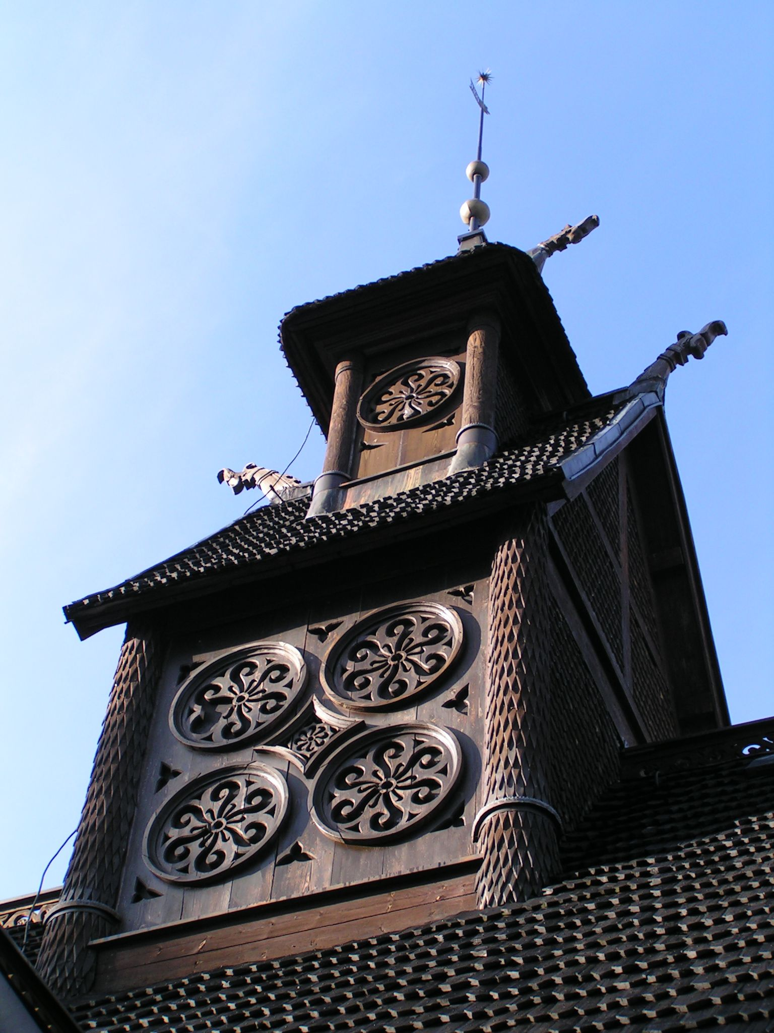 Church Wang in Karpacz, Poland